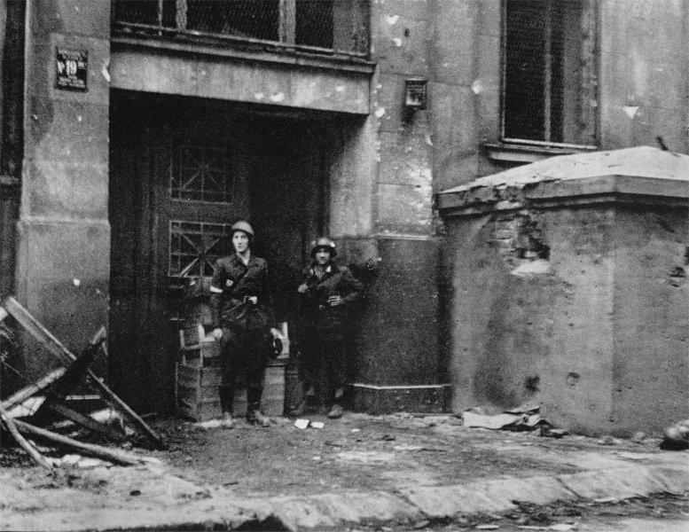 Warsaw Uprising: Insurgents from Ruczaj Battalion after fight for Mała PASTa building take pictures at the main entrance at Piusa 19 Street next to a bunker.